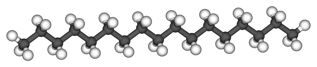 Ball-and-stick model of heptadecane. Created using Accelrys DS Visualizer Pro 1.7 and GIMP, and optimized with OptiPNG.